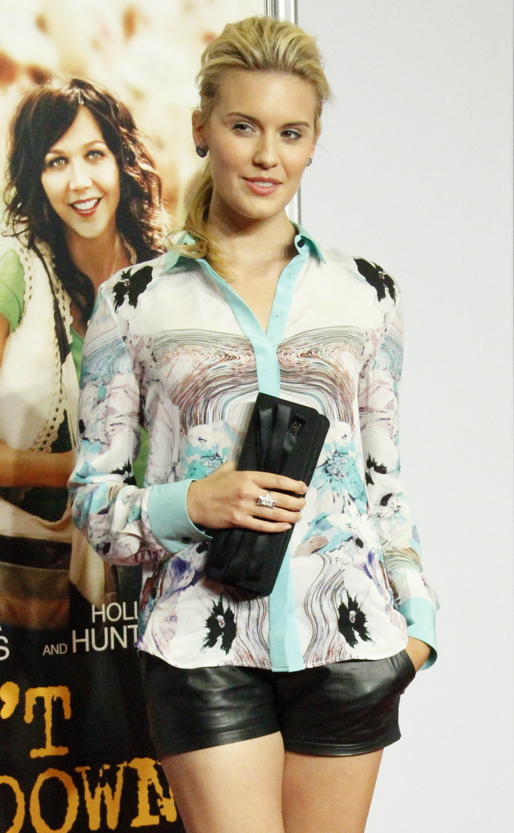 Maggie Grace at the Won't Back Down NYC Premiere, Ziegfeld Theater in 2012.